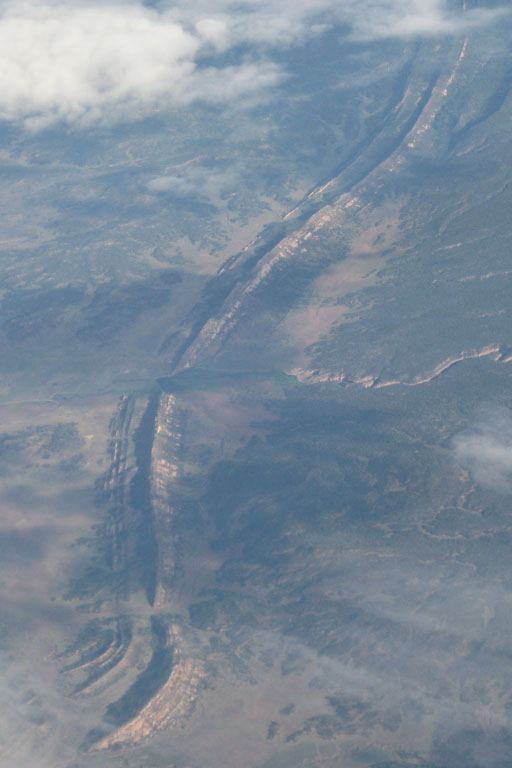 Oblique air photo of a hogback located between Gallup and Ramah in western New Mexico. Locally called "the hogback". Facing northwest. 1 August 2011.